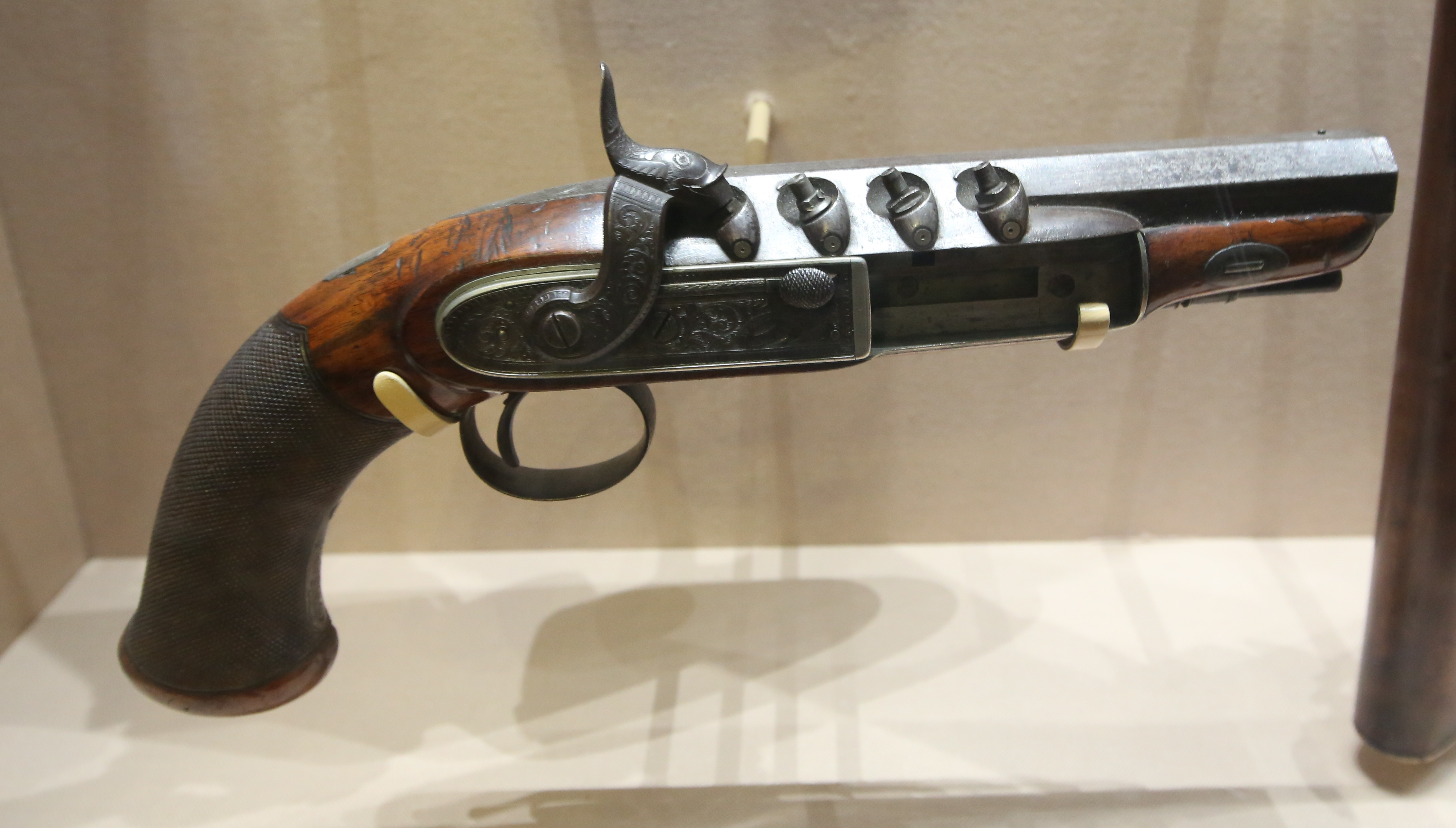 Photo of a william mills superimposed load pistol from around 1830